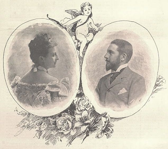 Archduchess Maria Dorothea of Austria and Prince Philippe, Duke of Orléans